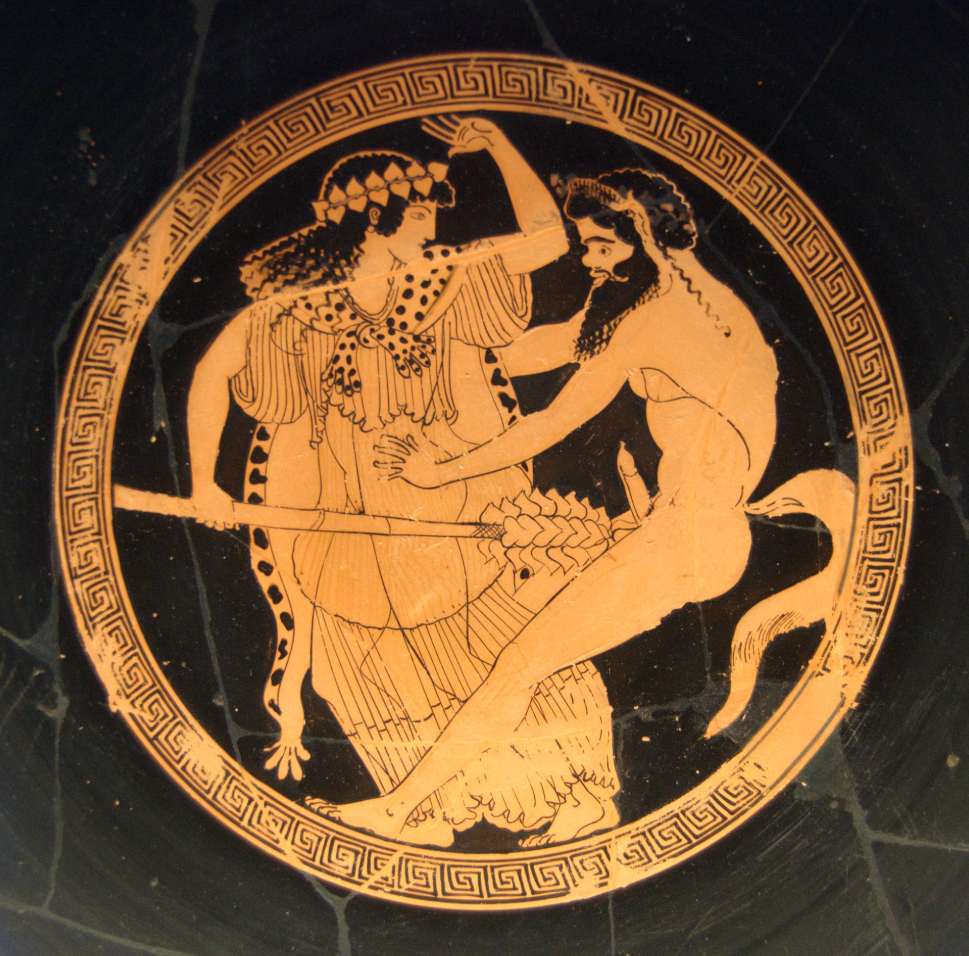 Silenus and maenad. Tondo of an Attic red-figure kylix, ca. 480 BC. From Vulci.